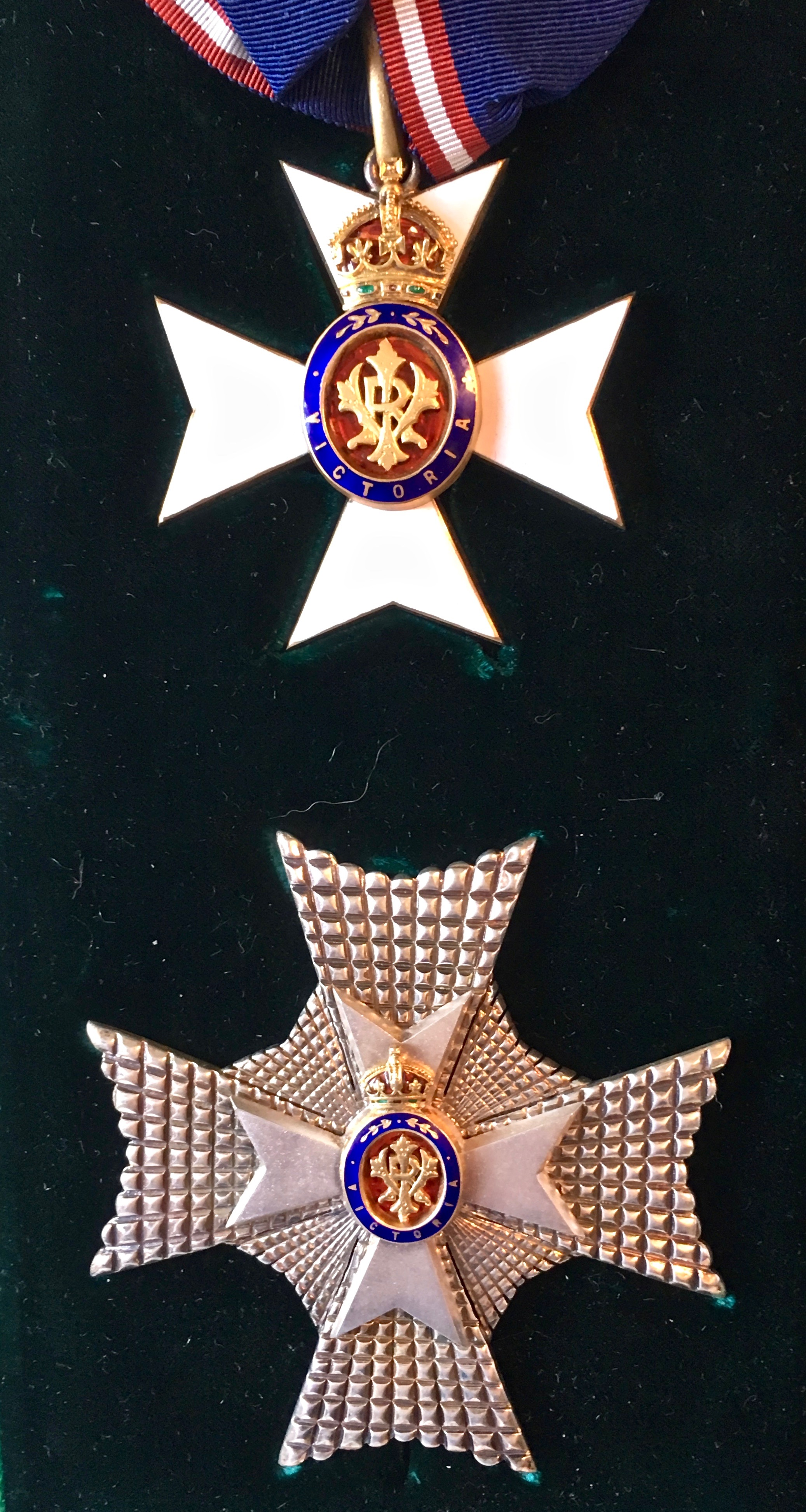 Badge and neck decoration of the Knight Commander of the Royal Victorian Order (KCVO)